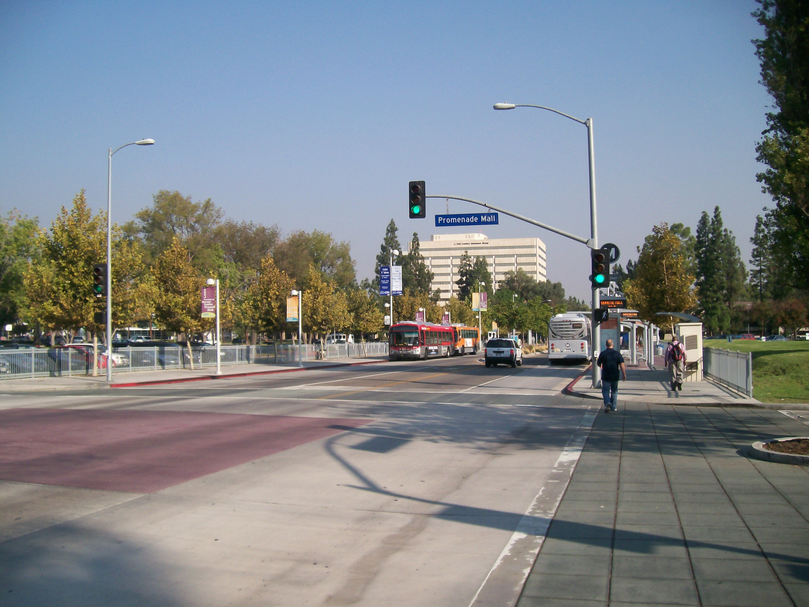 Warner Center Transit Hub on the Metro Orange Line — on Canoga Avenue at Warner Center in northern Woodland Hills, in the western San Fernando Valley, Los Angeles, California.